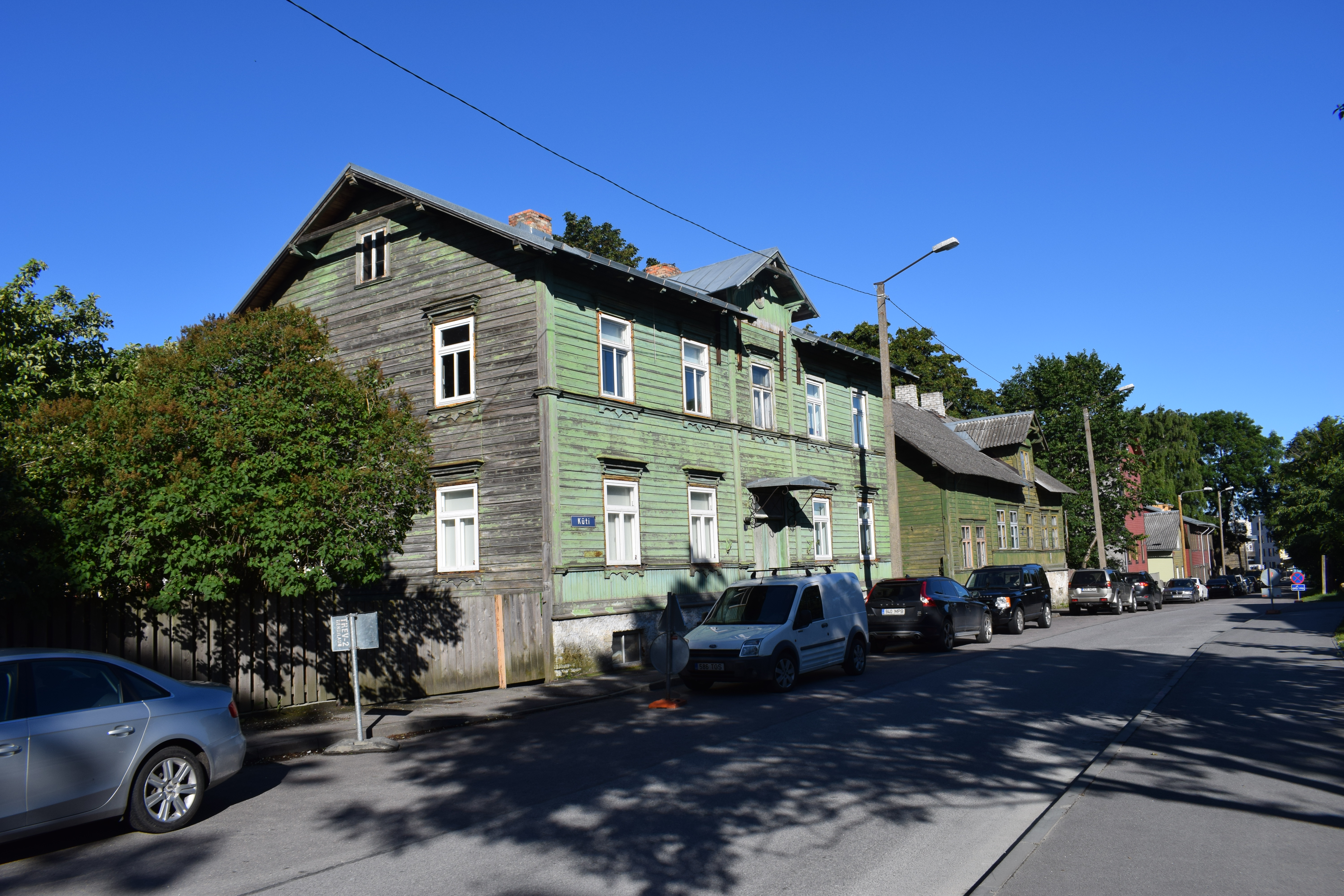 Küti street 3